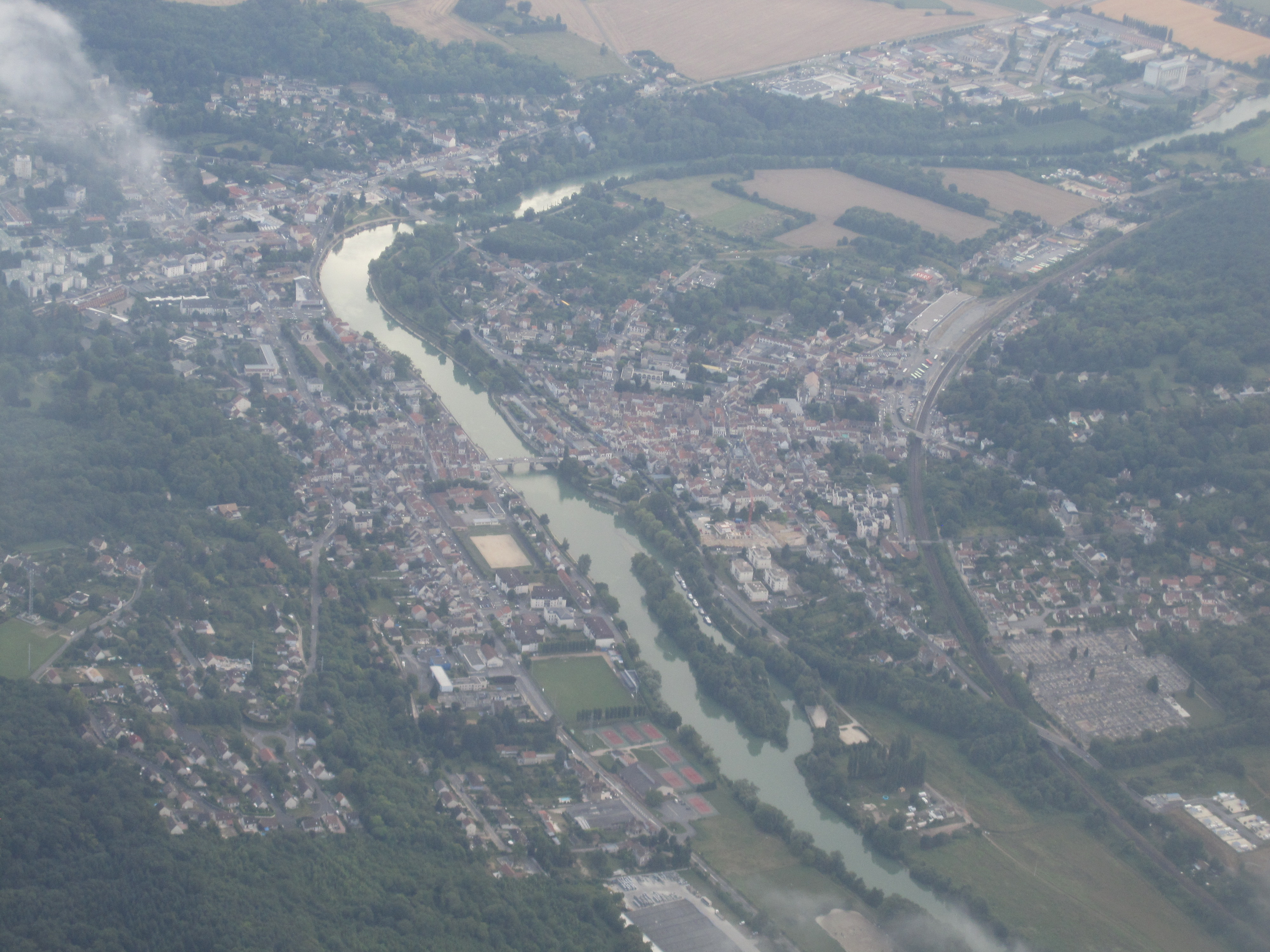 Aerial photograph of La Ferté-sous-Jouarre.